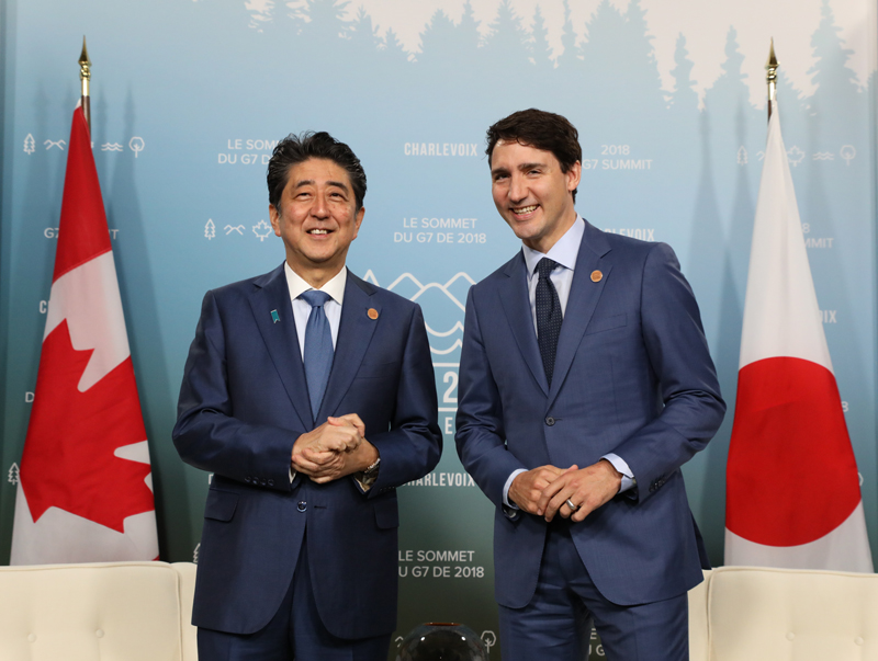 Prime Minister of Japan Shinzō Abe and Prime Minister of Canada Justin Trudeau at the 44th G7 summit.